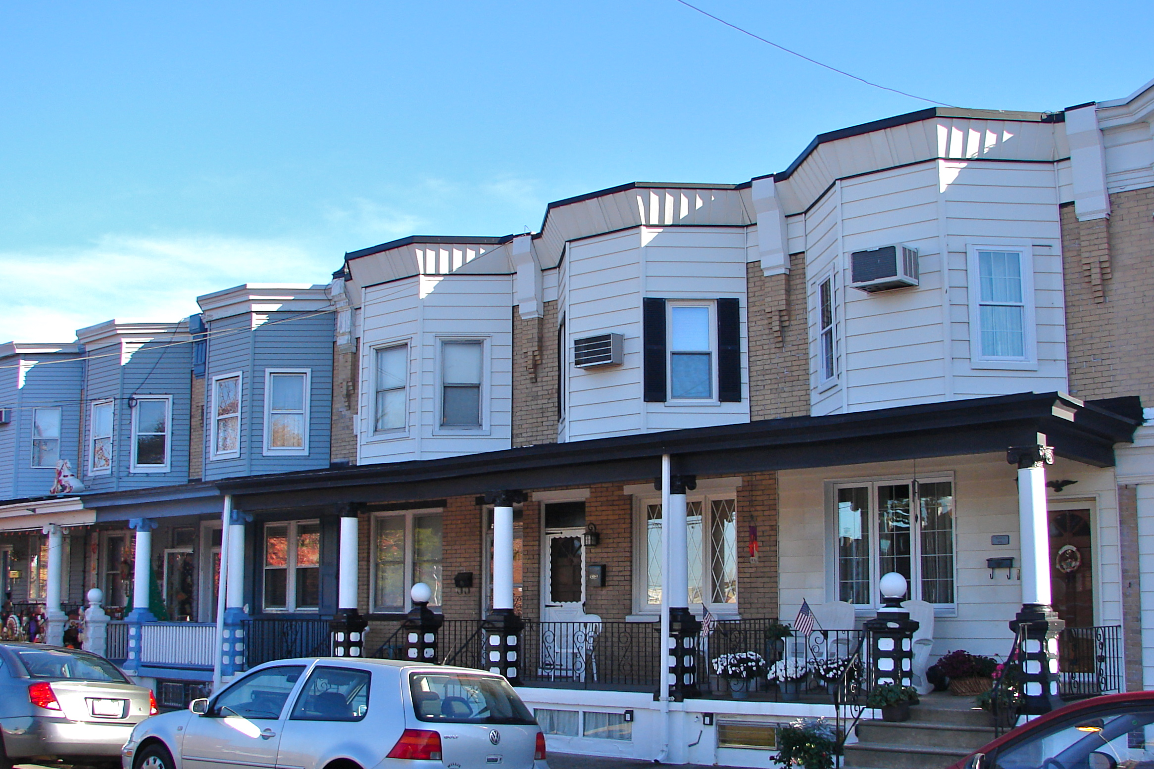 Jefferson Land Association Historic District on the NRHP since November 5, 1987. HD is bounded by Spring Street, Jefferson Avenue, Garden, and Mansion Streets, and Beaver Dam Road, in Bristol, Bucks County, Pennsylvania.